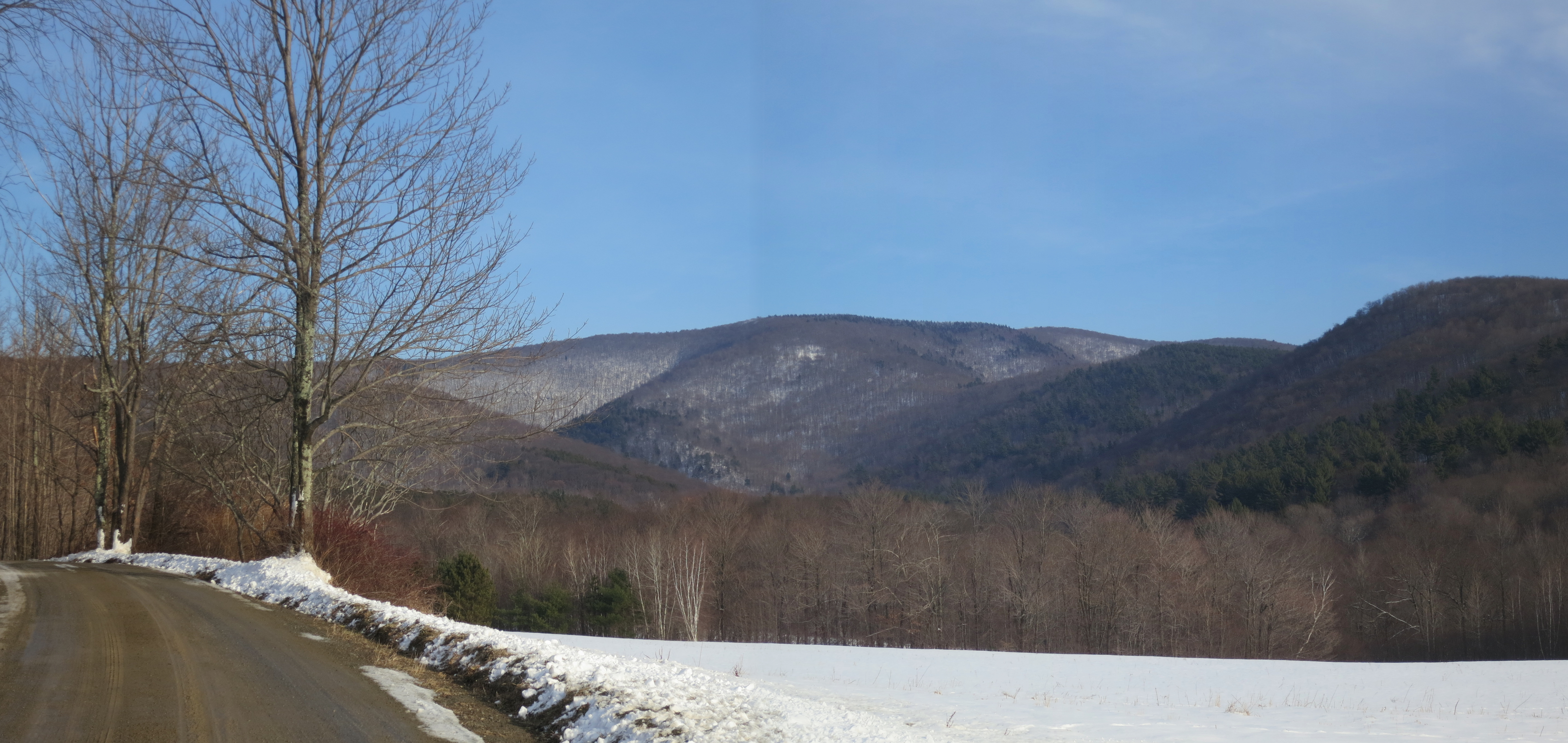 Mt. Macomber from Cowdrey Hollow Road